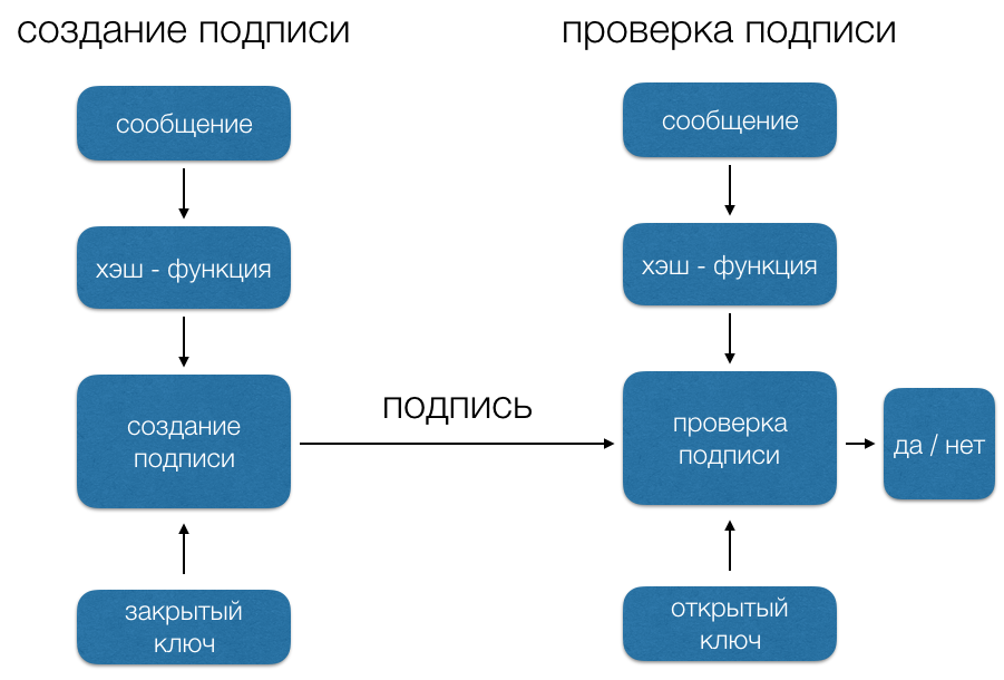 dsa workflow russian